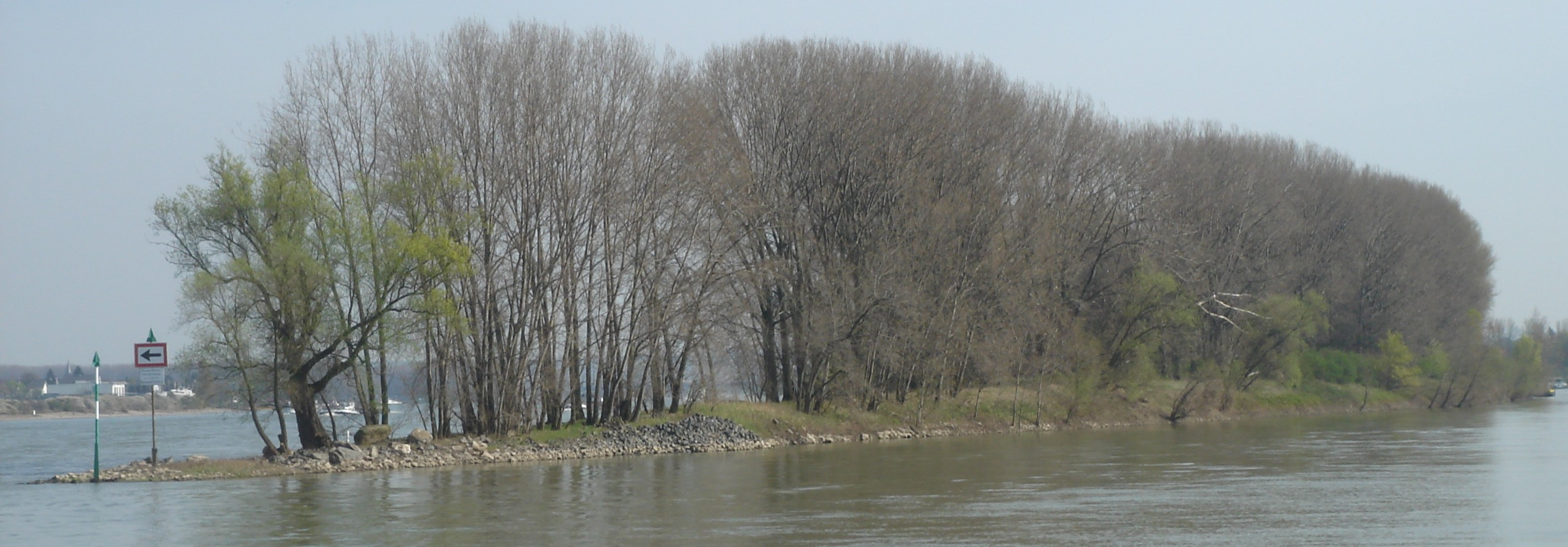 Rhine island Herseler Werth in Bornheim-Hersel, Germany.